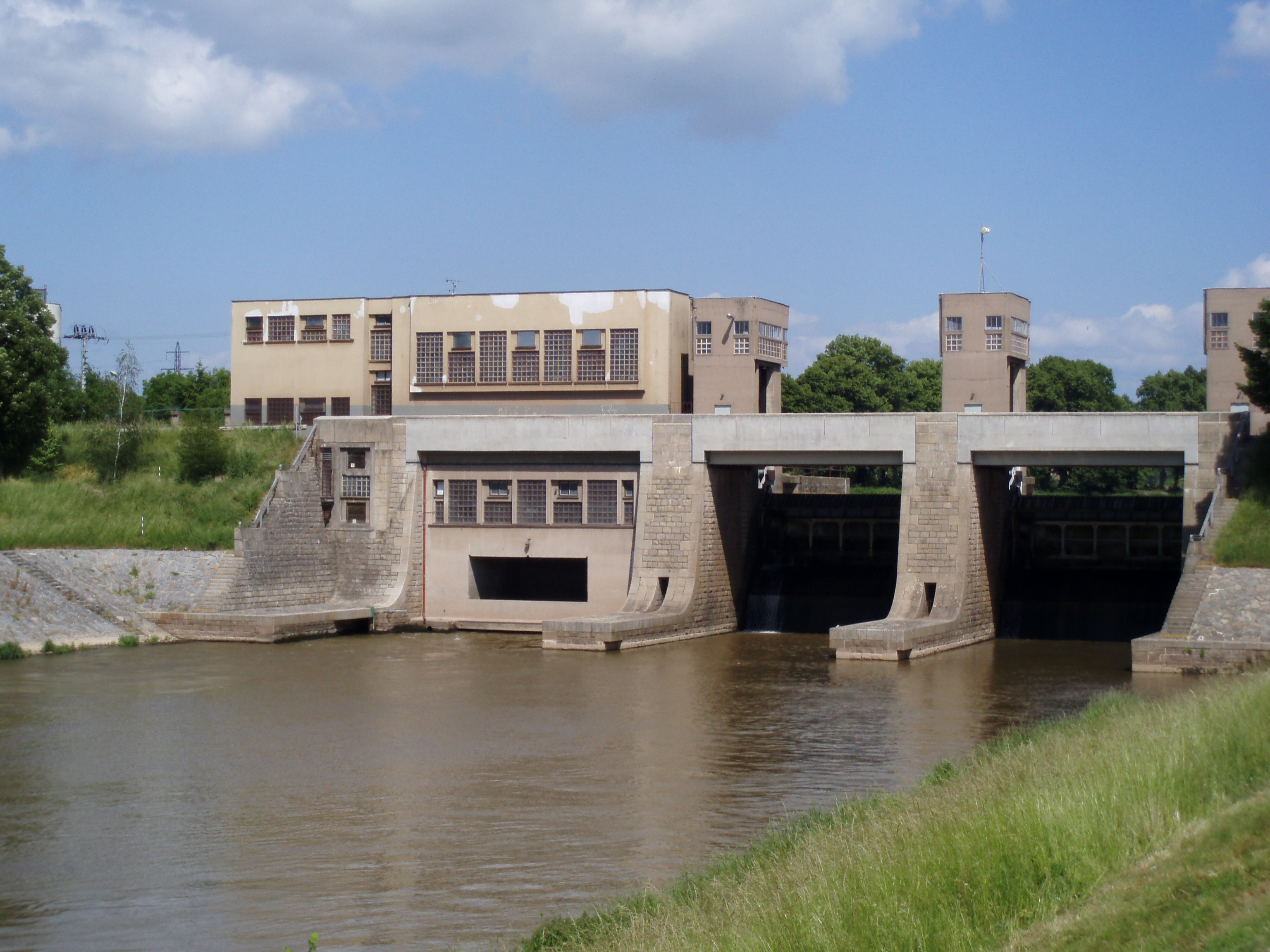 Water Power Station in Předměřice nad Labem